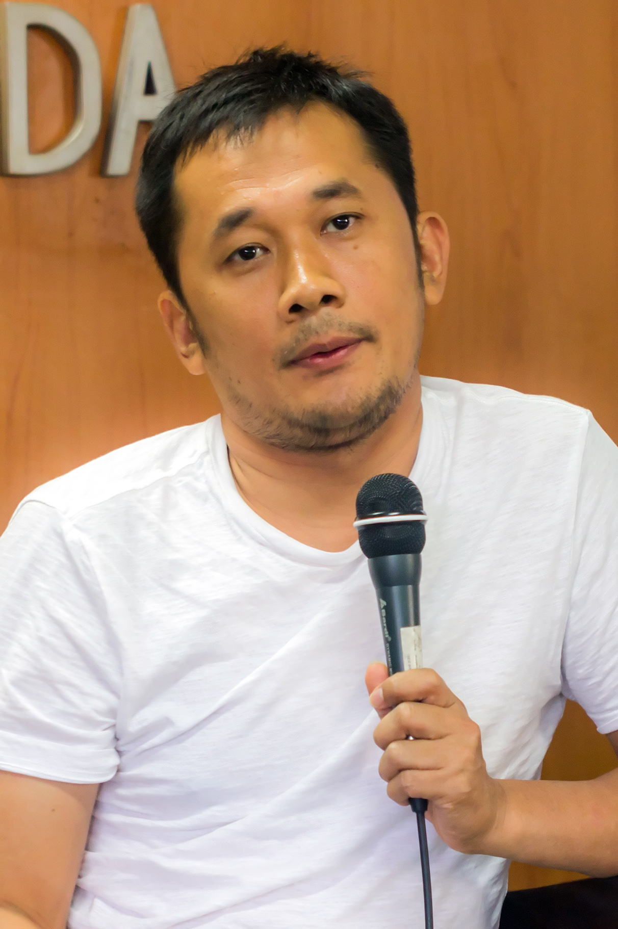 Indonesian film director Hanung Bramantyo speaking at the Jogja-Netpac Asian Film Festival, 2017-12-04